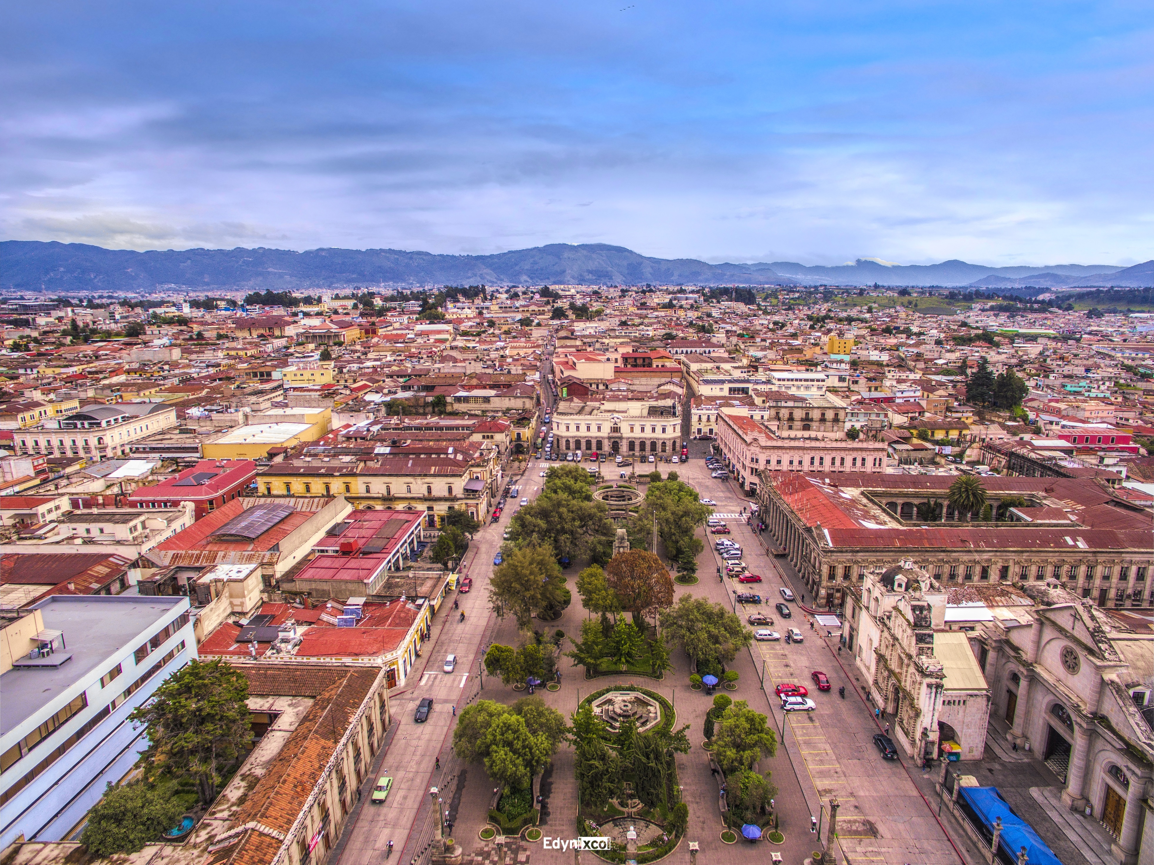 Centro Histórico, Ciudad de Quetzaltenango